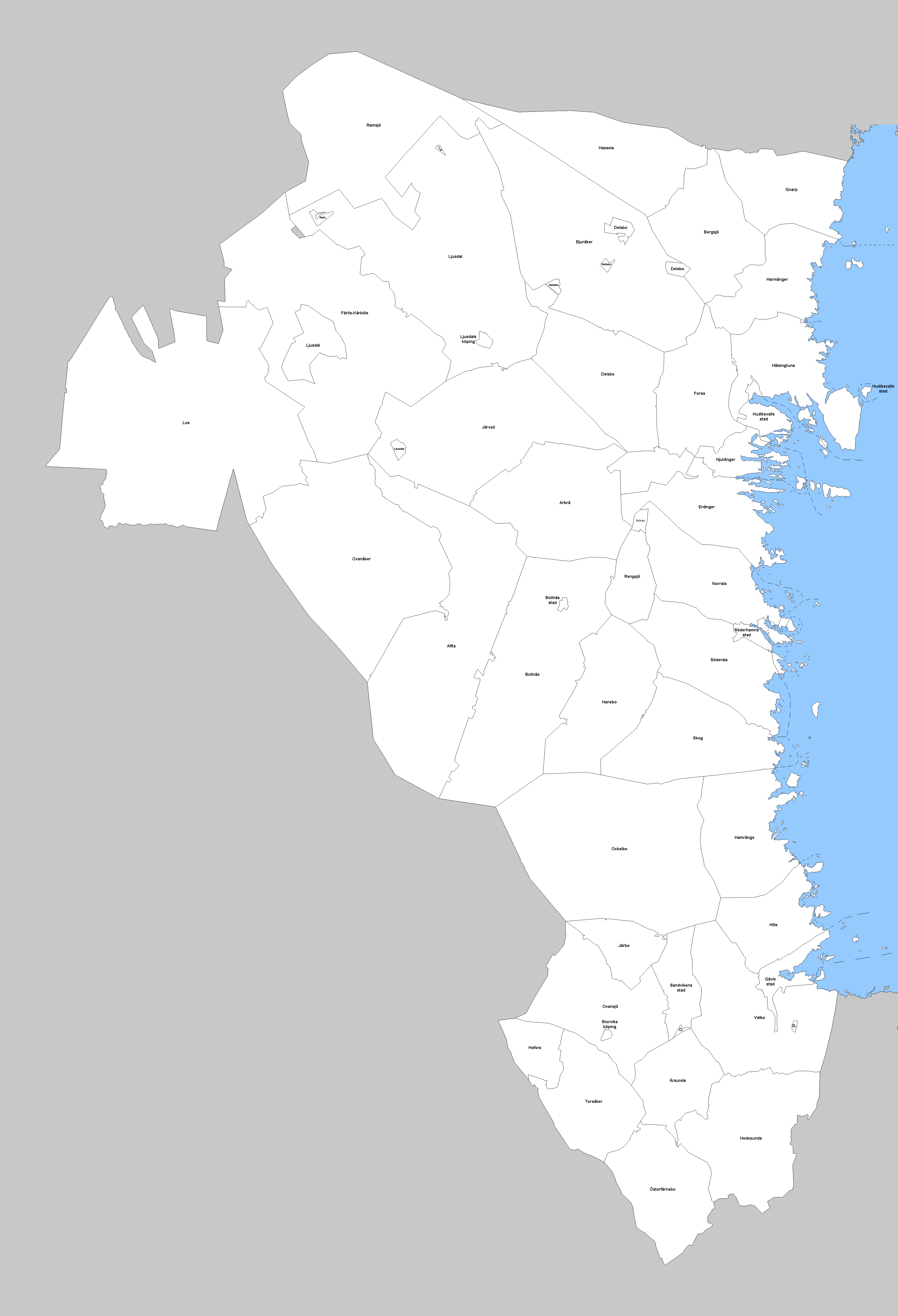 Old municipalities in Gävleborg county on the 1st of januari 1952